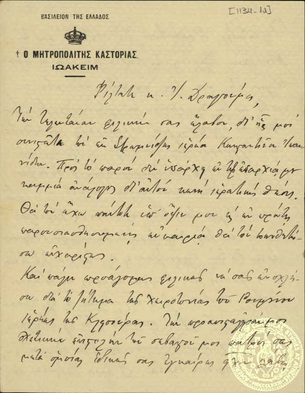 Ioakim_of_Kastoria_Letter_to_Ion_Dragoumis